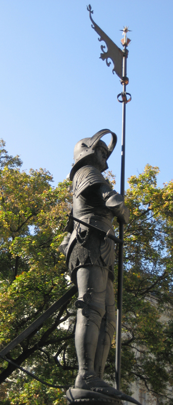 Rathausmann, sculpture (copy) in front of Vienna town hall